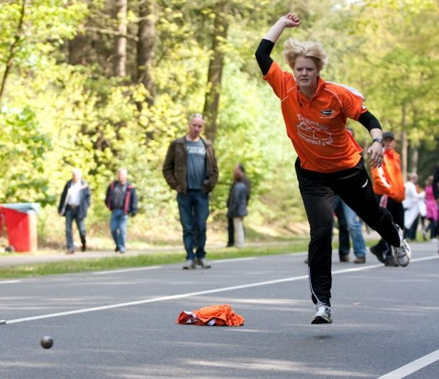 An actionshot from a Dutch Road Bowler